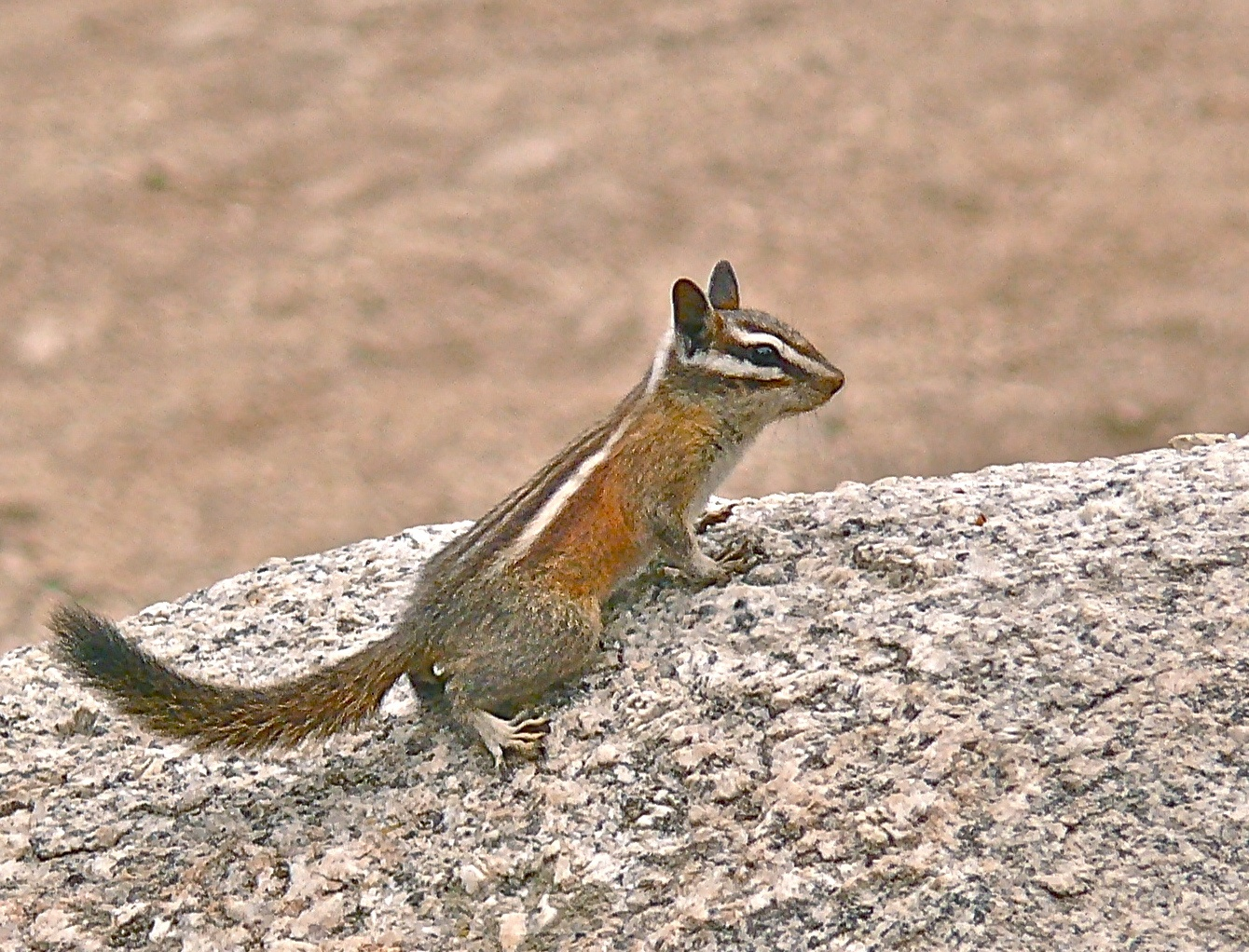 Lodgepole Chipmunk with vivid stripes, looking quite similar to the Golden-Mantled Ground Squirrel. The Chipmunk is tiny, the Squirrel is just really small.